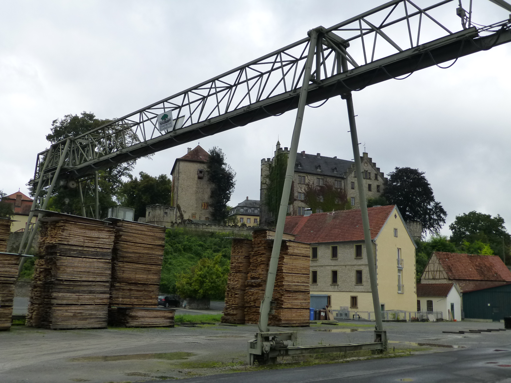 Castle seen from the sawmill Kampf, Thüngen, Lower Franconia, Bavaria.